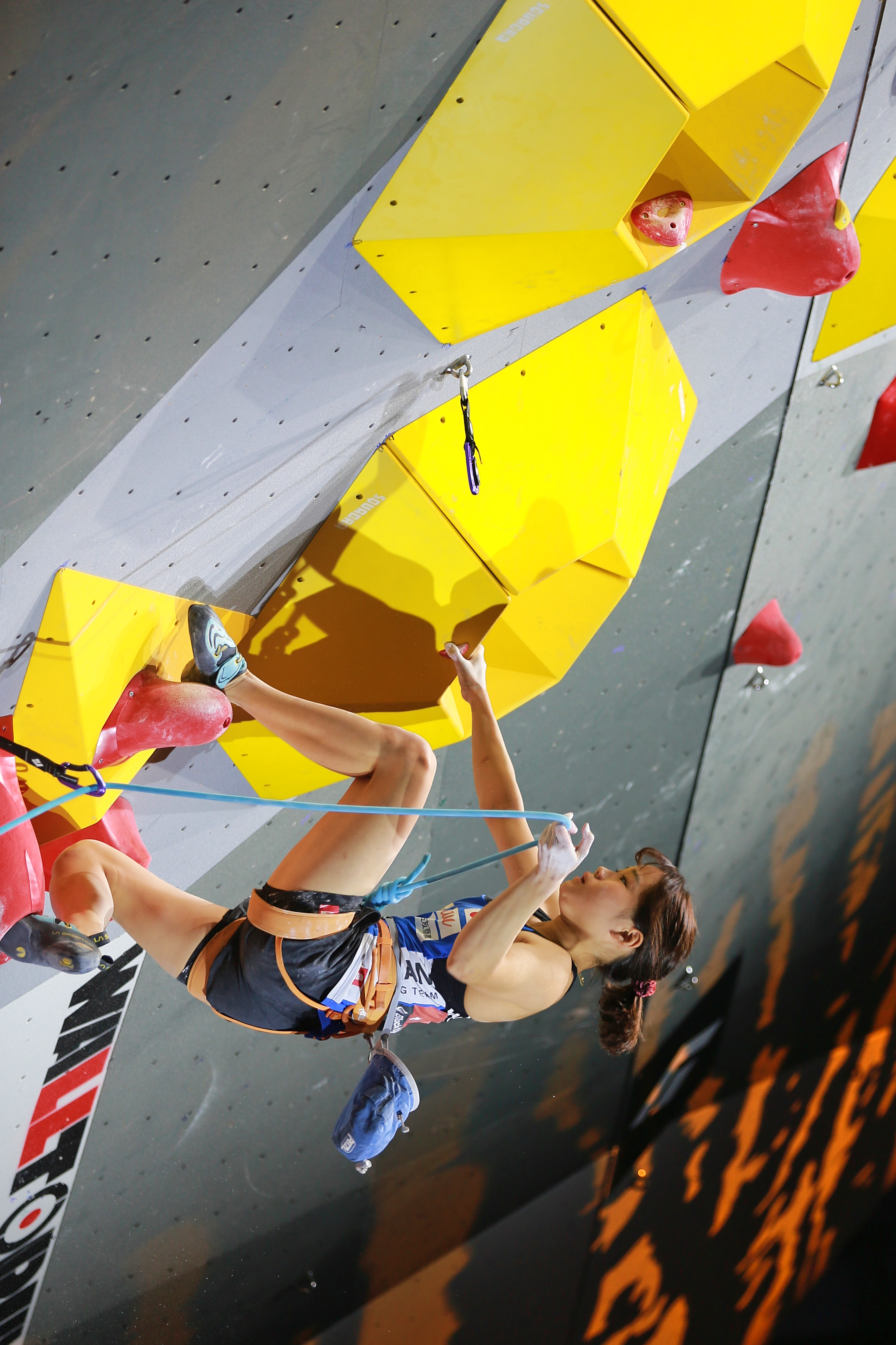 Climbing World Championships 2018 Lead Final Kotake